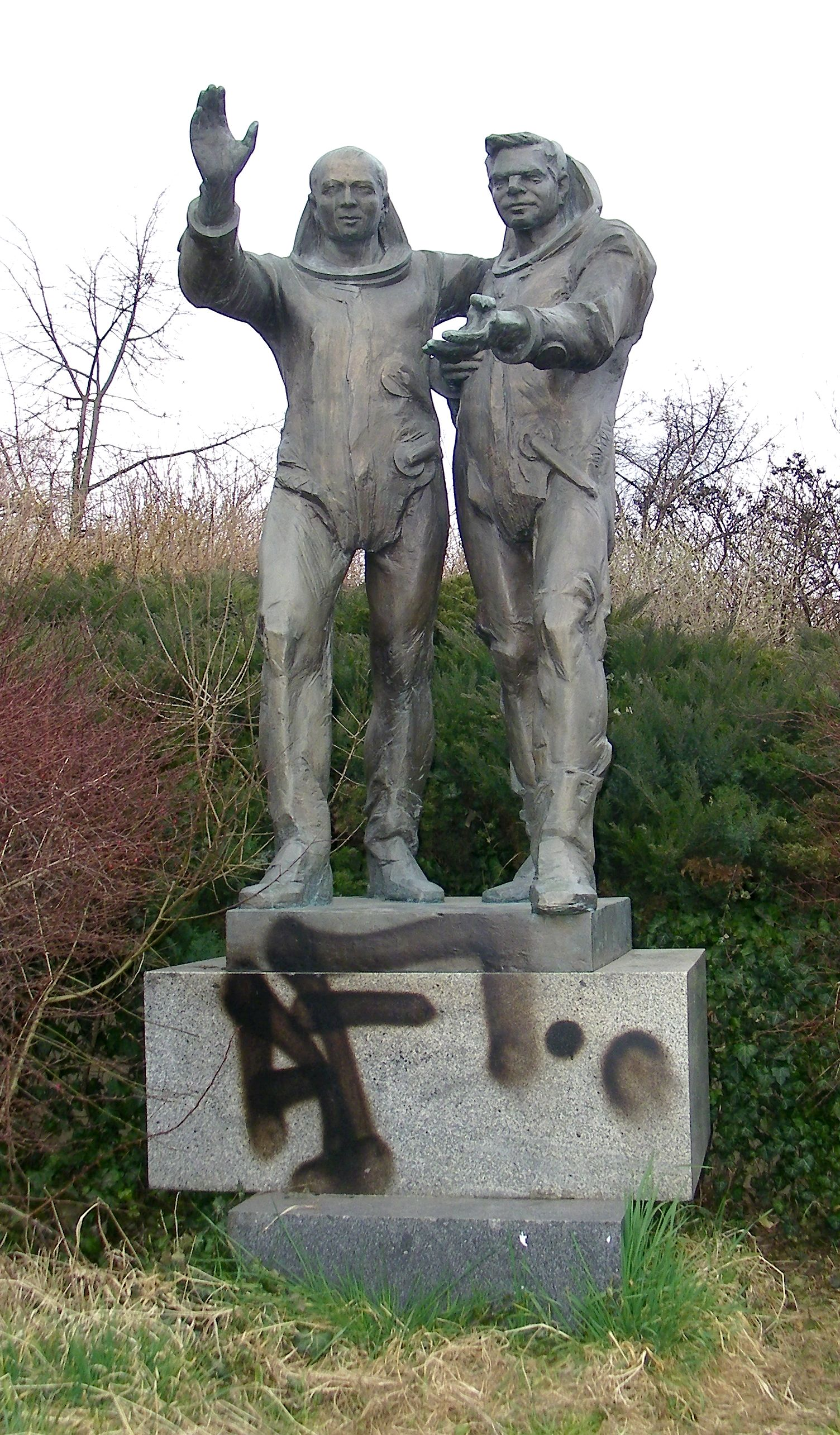 Kosmonautů statue. Photo of the statue of (left to right on the photo) Czechoslovak (and Czech) cosmonaut Vladimír Remek and Russian cosmonaut Aleksei Gubarev outside of Metro station Háje (which was formerly named Kosmonautů) in Prague, Czech Republic. Remek is the first and so far only Czech (and Czechoslovak) in space.